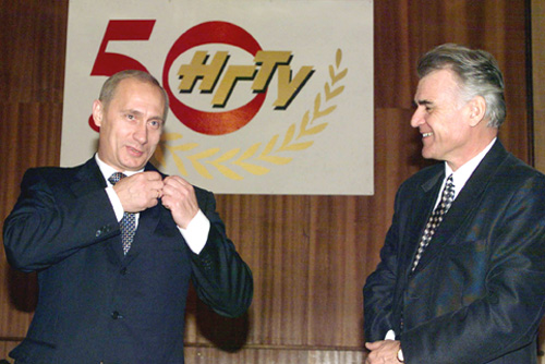 NOVOSIBIRSK STATE TECHNICAL UNIVERSITY, NOVOSIBIRSK. Rector of the university Anatoly Vostrikov presenting a badge in commemoration of the 50th anniversary of the university to President Vladimir Putin.